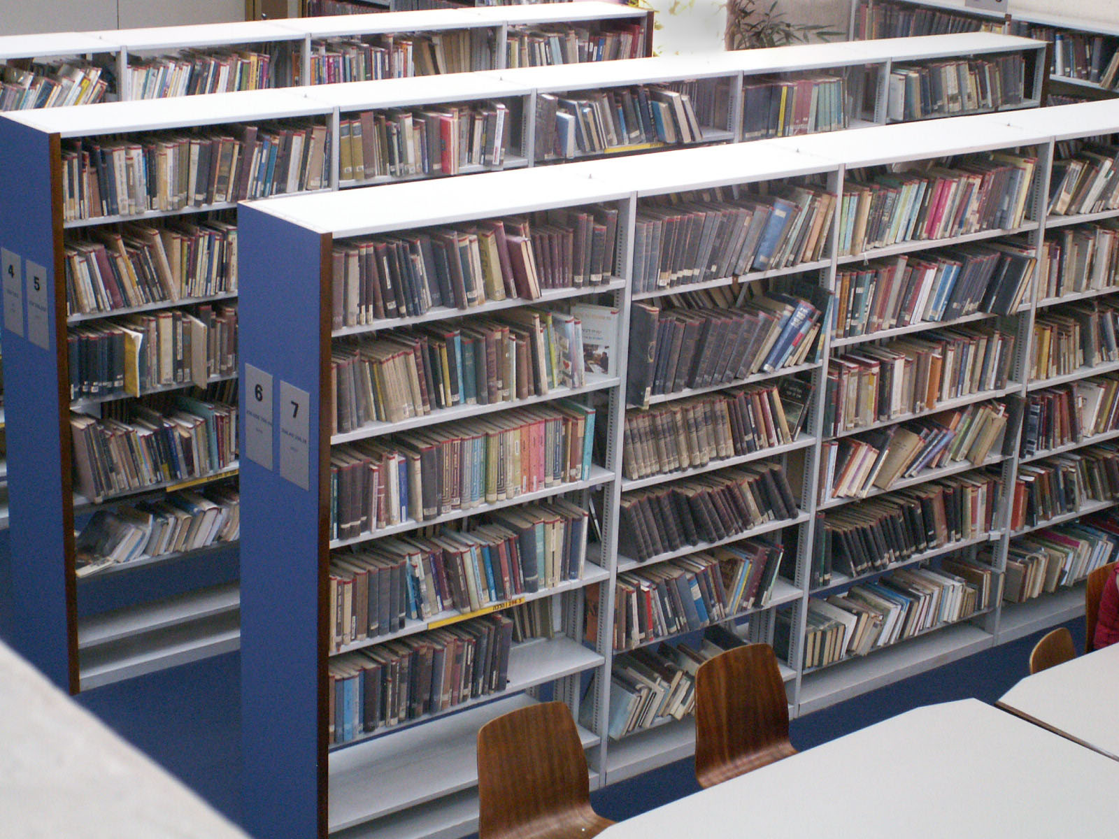 Inside of Bet-Ariela library